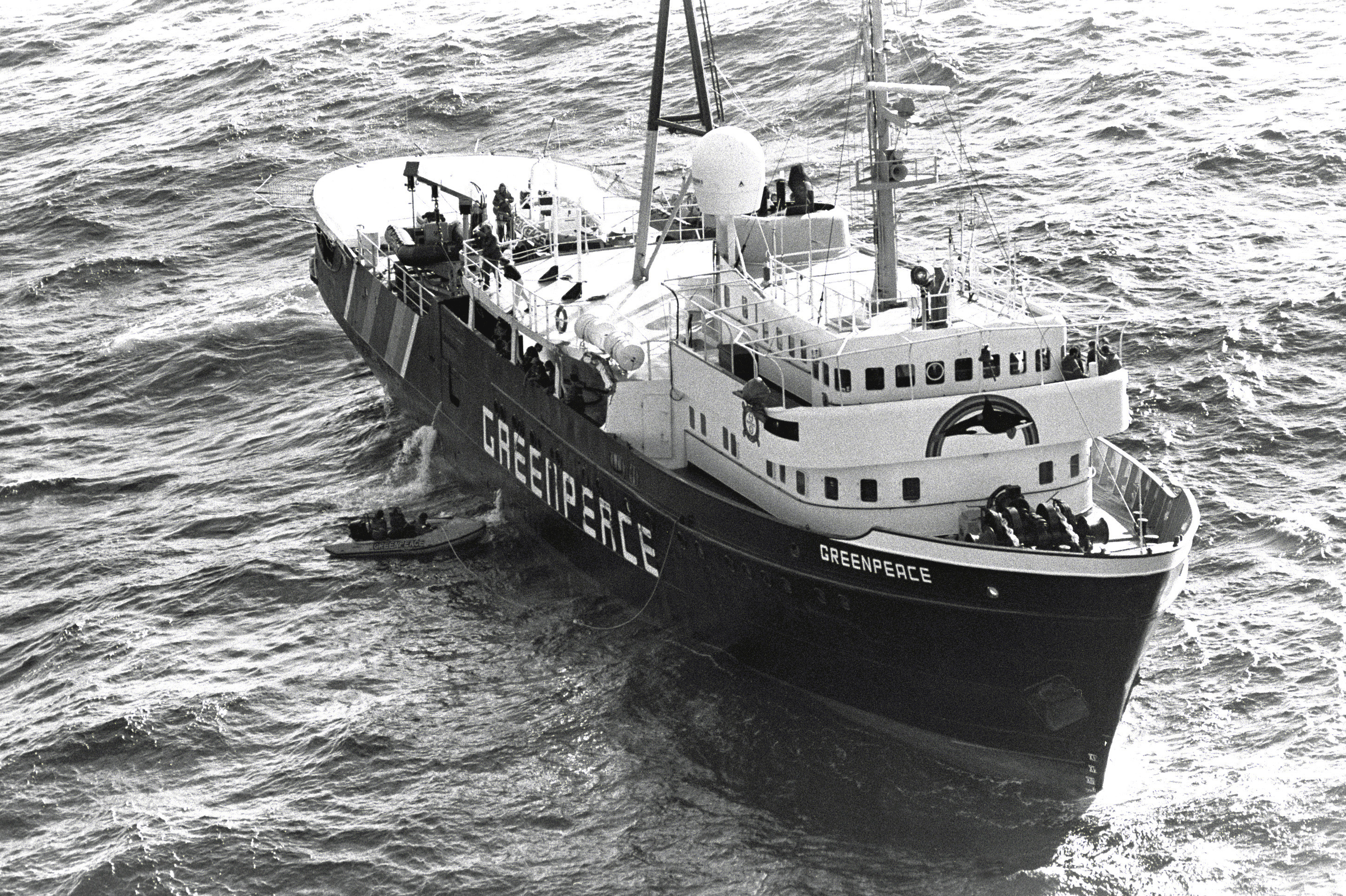 The vessel MV Greenpeace with an inflatable boat alongside. The Greenpeace, which was operated by the environmental organization of the same name, was in restricted waters off the coast of Florida (USA) in an attempt to disrupt the U.S. Navy's test launch of a UGM-133 Trident II D-5 submarine-launched ballistic missile from the submarine USS Tennessee (SSBN-734), in 1989.